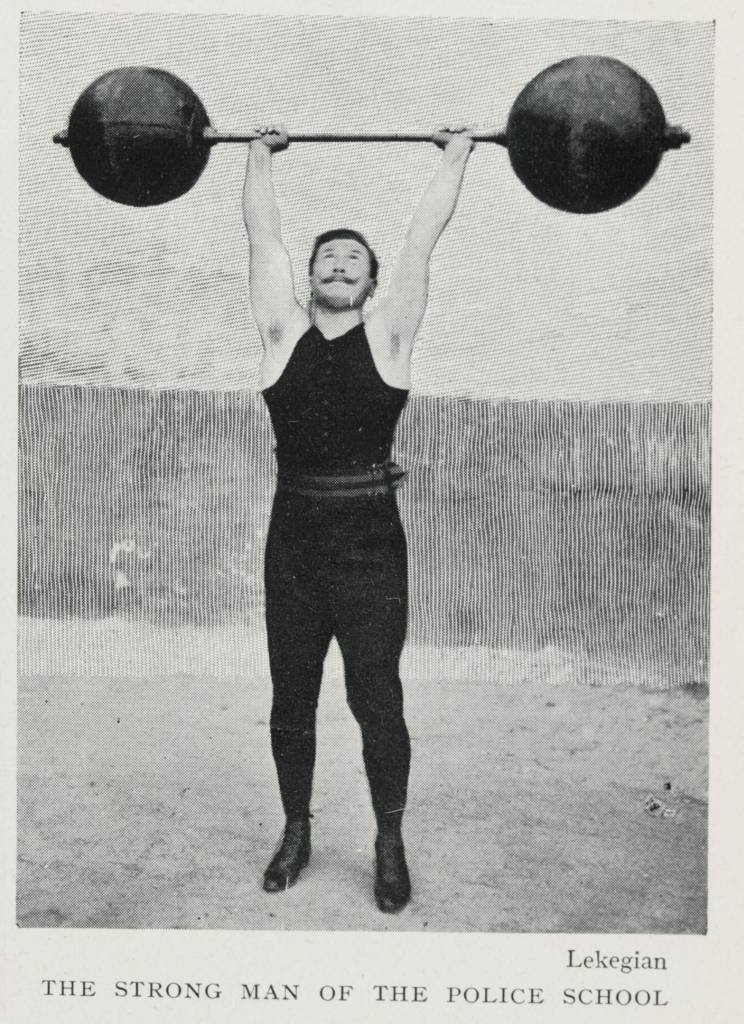 A man in a black strongman's outfit holds a large barbell over his head.